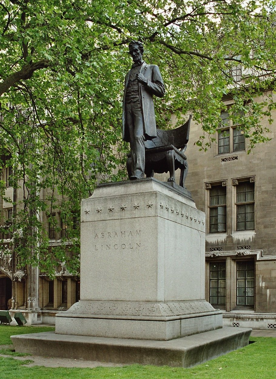 Abraham Lincoln Memorial, London City